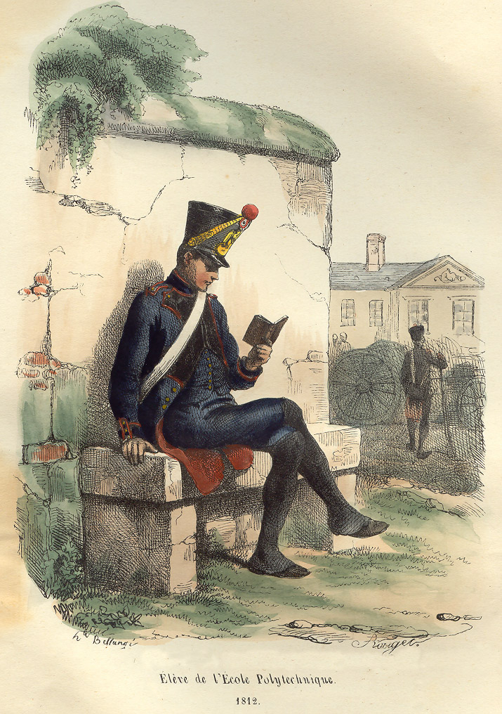 Student of the École Polytechnique in 1812. From book of P.-M. Laurent de L`Ardeche «Histoire de Napoleon», 1843